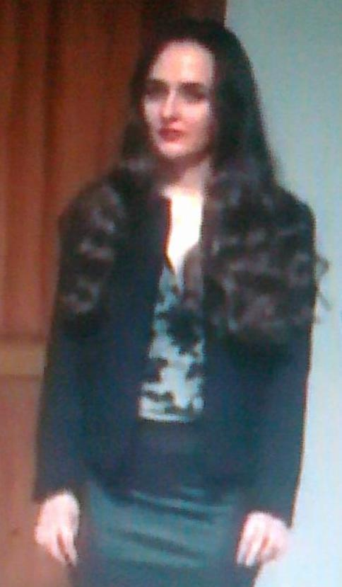 Pianist Ivett Gyöngyösi